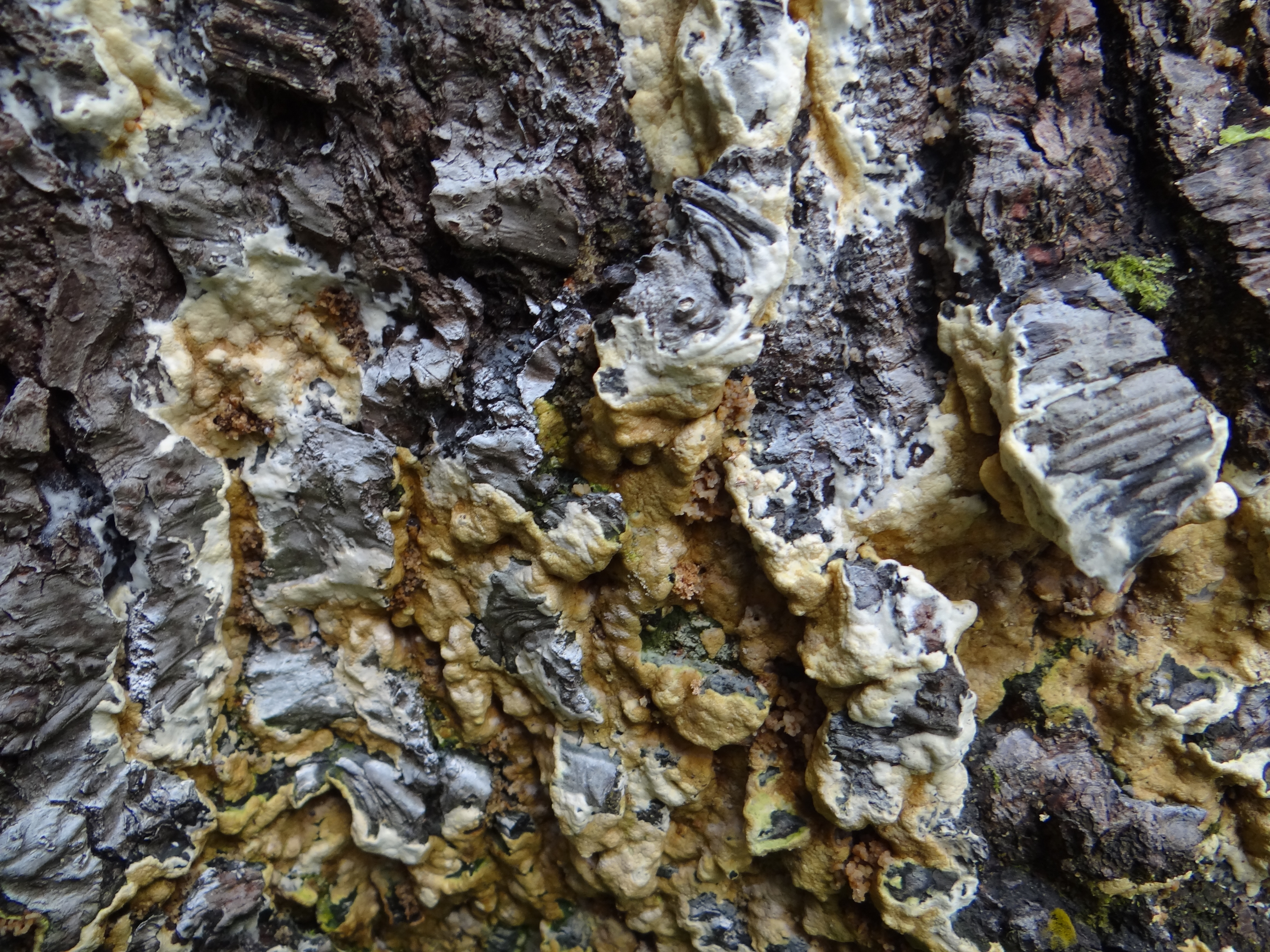 Coniophora puteana (location: Poland, Żegocina)